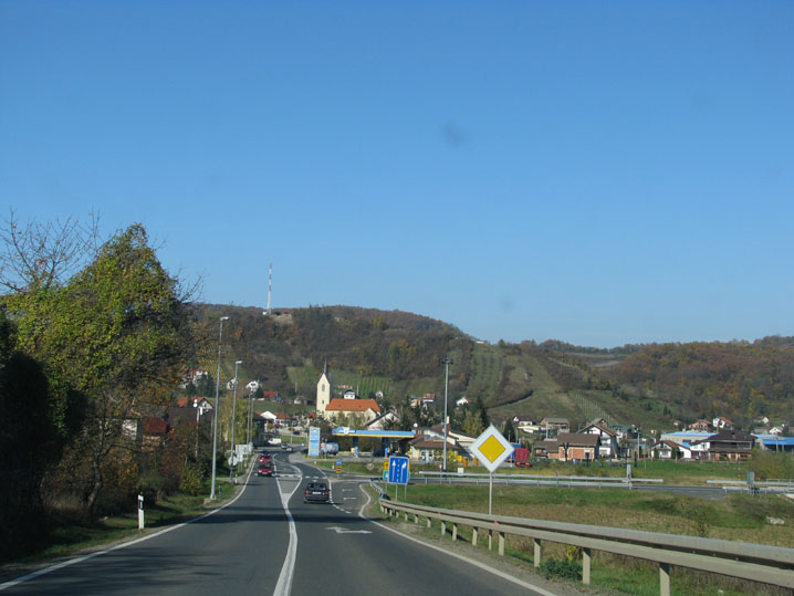 Breznički Hum, Varaždin County, Croatia